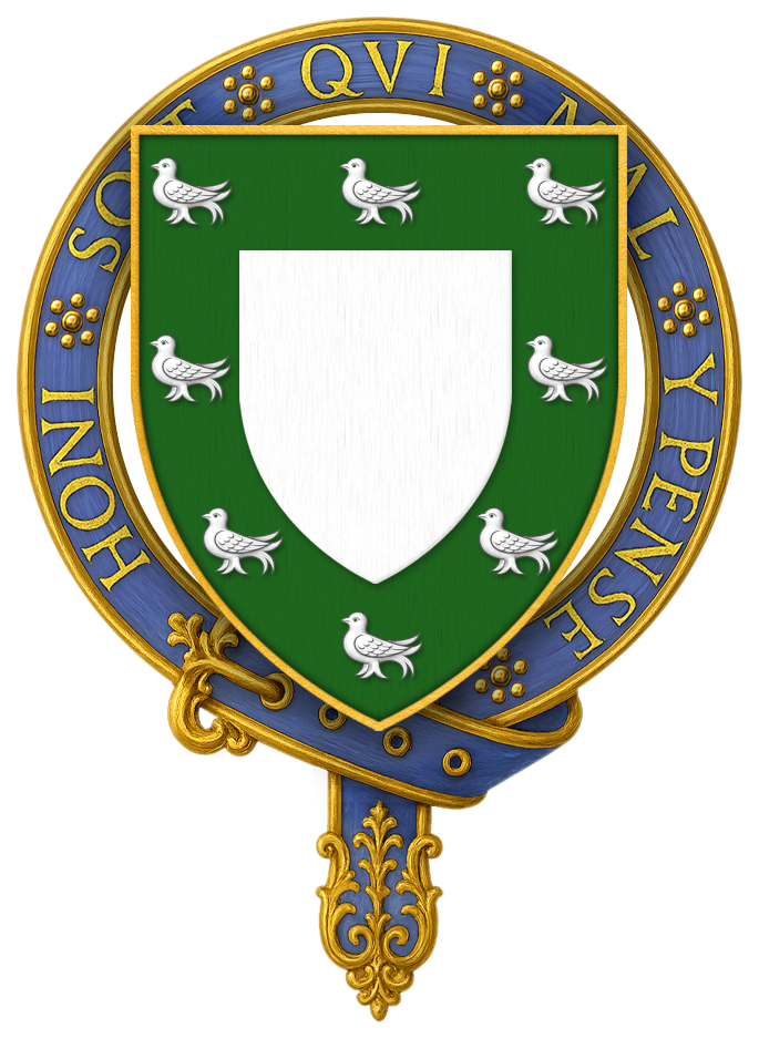 Coat of Arms of Sir Thomas Erpingham, KG: Vert, an inescutcheon within an orle of martlets argent HOPE, W. H. St. John, ‘’The Stall Plates of the Knights of the Order of the Garter 1348 – 1485: A Series of Ninety Full-Sized Coloured Facsimiles with Descriptive Notes and Historical Introductions,’’ Westminster: Archibald Constable and Company LTD, 1901. “ Sir Thomas Erpyngham, K.G. c. 1401-1428... with arms, vert an inescutcheon and an orle of martlets silver. ” Stall plate remains viewable in the seventeenth stall, on the south side of St. George's chapel.